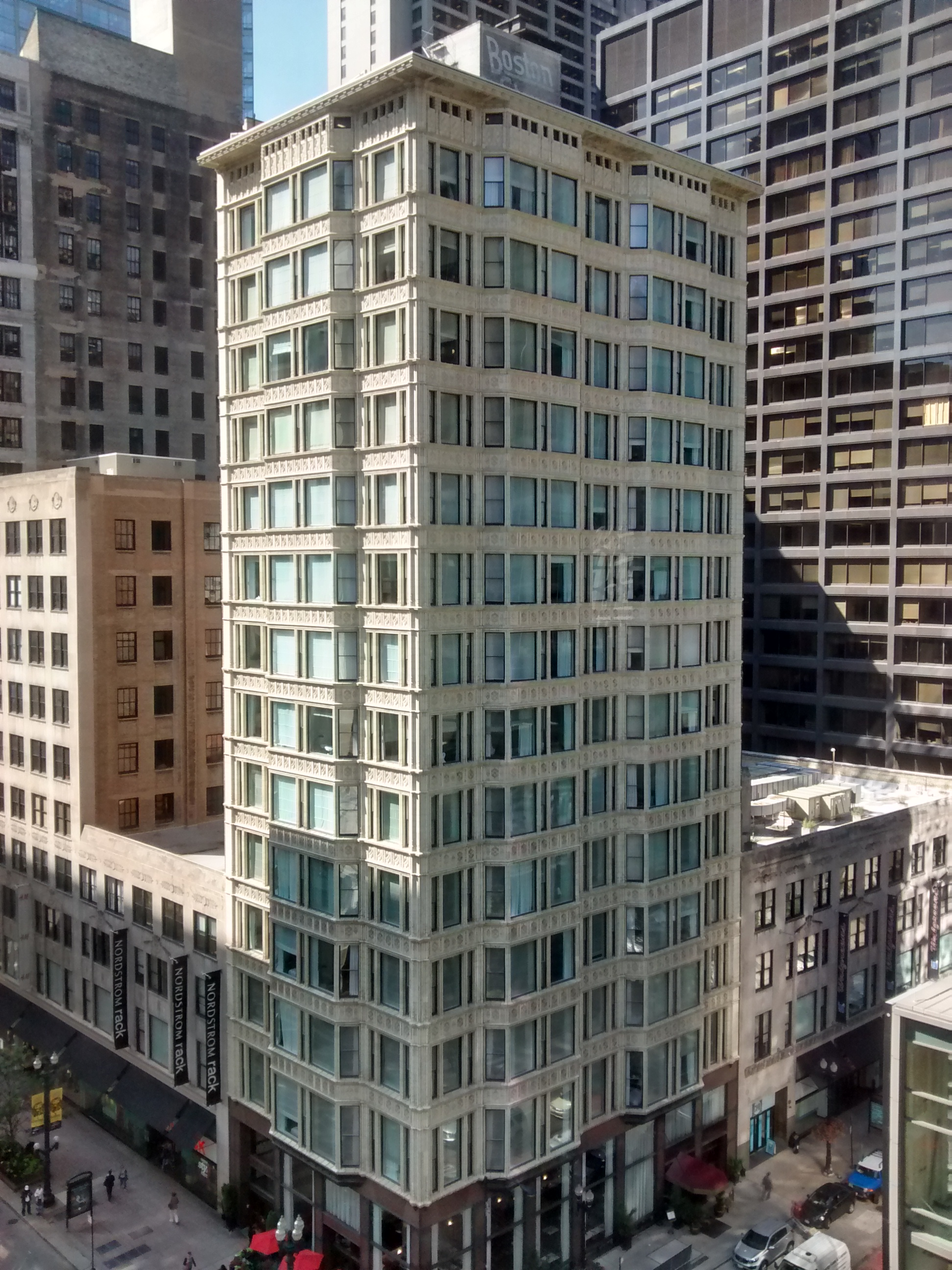 The Reliance Building in Chicago in September 2015.